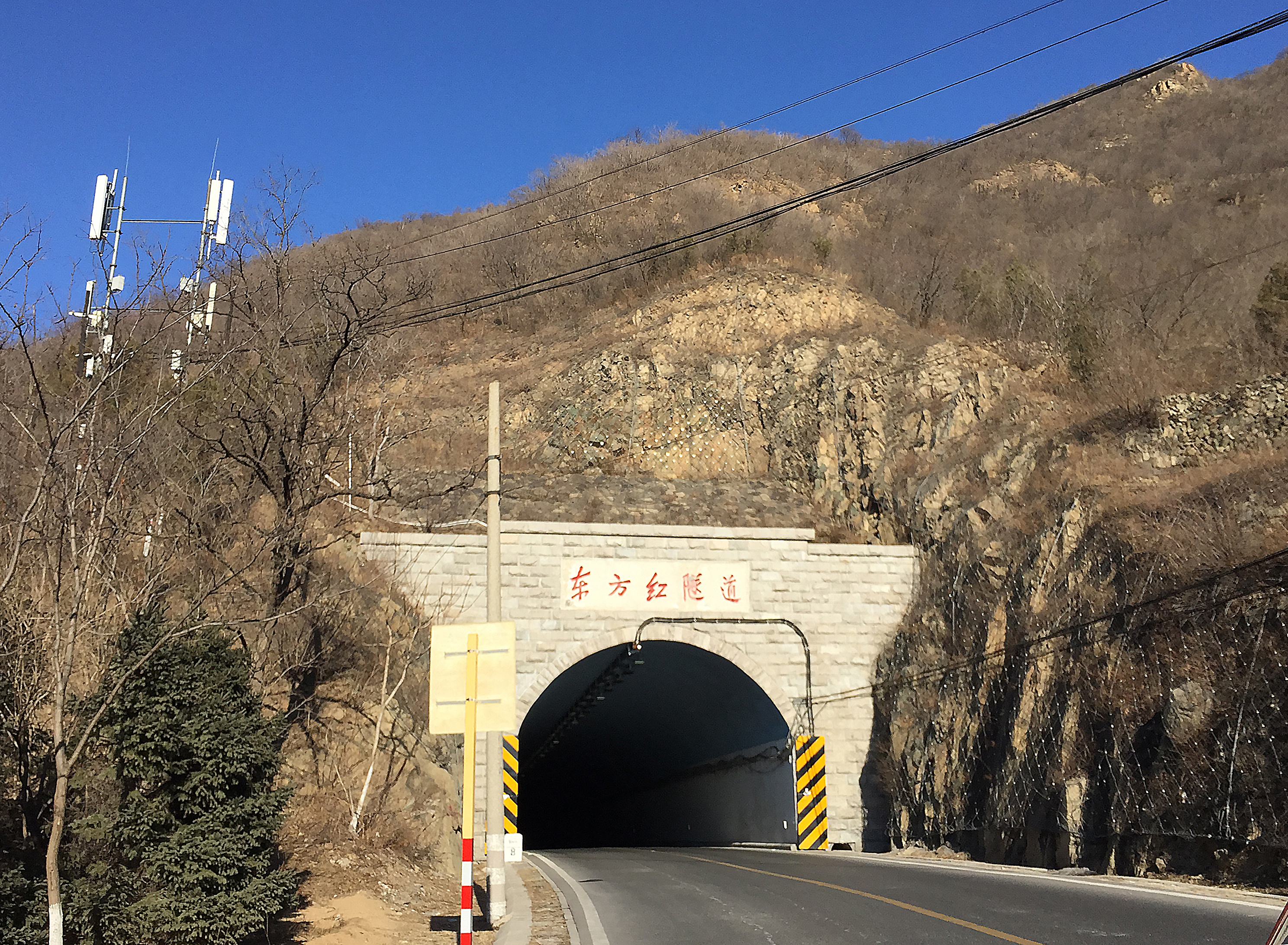 Taken on the first day of 2016 Lunar New Year. This tunnel has a high reputation among cyclists.